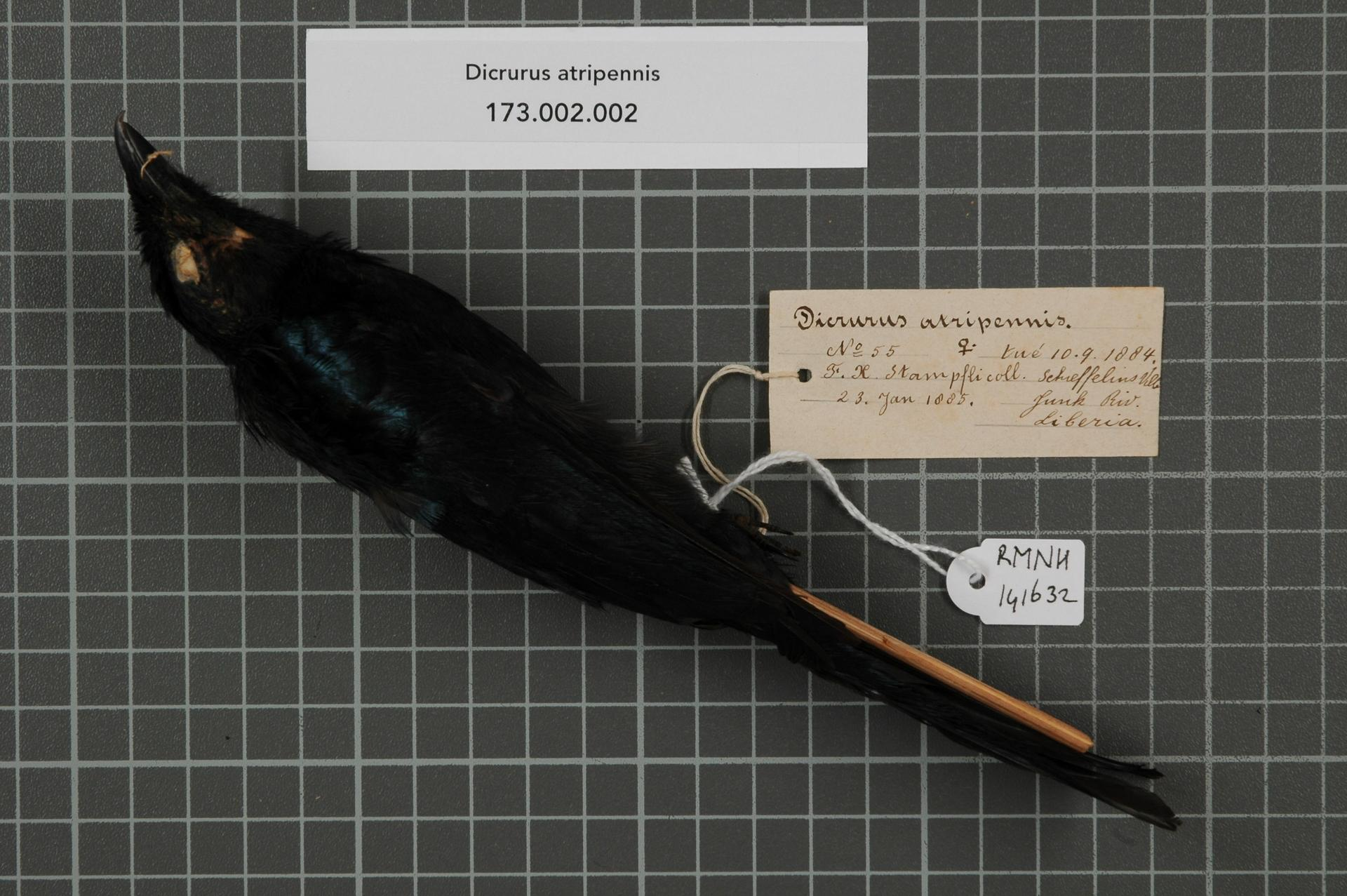 Dicrurus atripennis Swainson, 1837